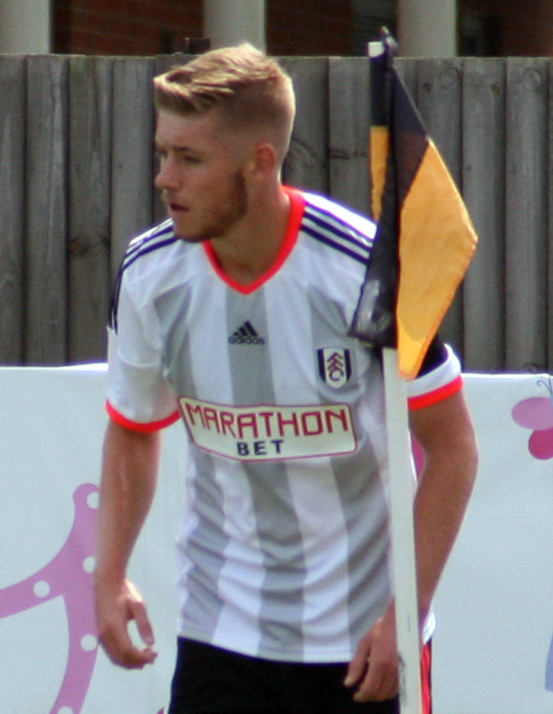 Jordan Evans in action for Fulham in July 2014.